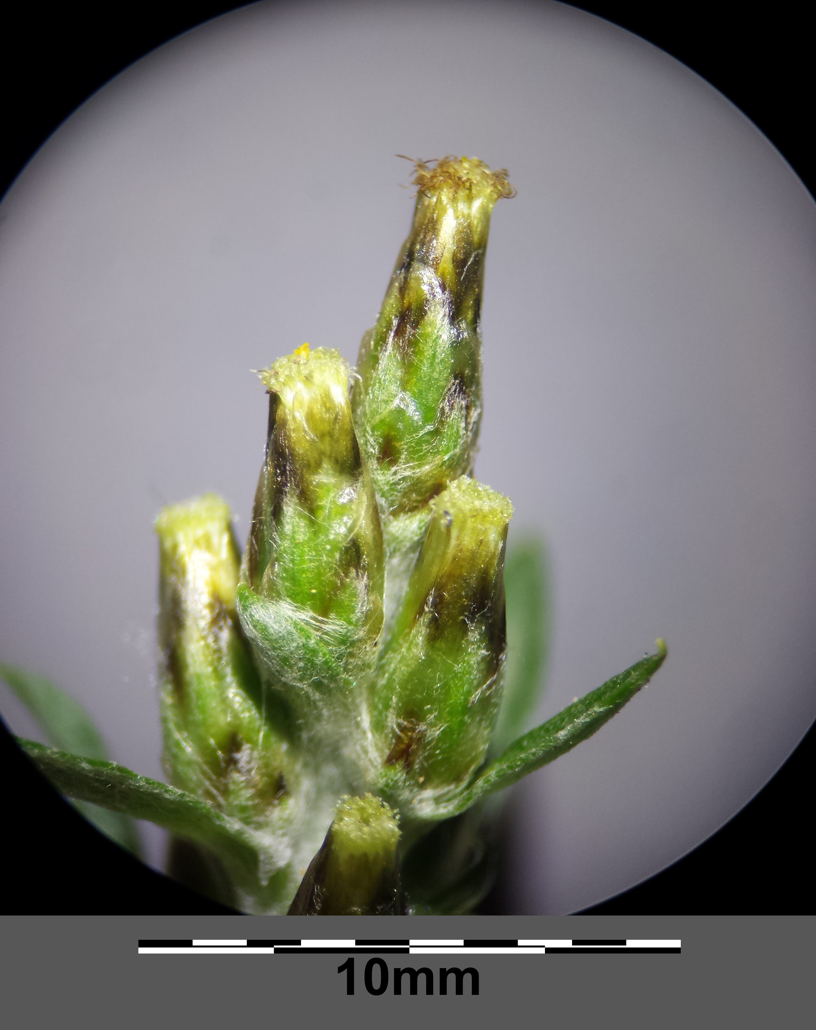 Stem with flower heads Taxonym: Gnaphalium sylvaticum ss Fischer et al. EfÖLS 2008 ISBN 978-3-85474-187-9 Location: next to Bruderndorf, Langschlag, district Zwettl, Lower Austria - ca. 800 m a.s.l. Habitat: wayside within a wood